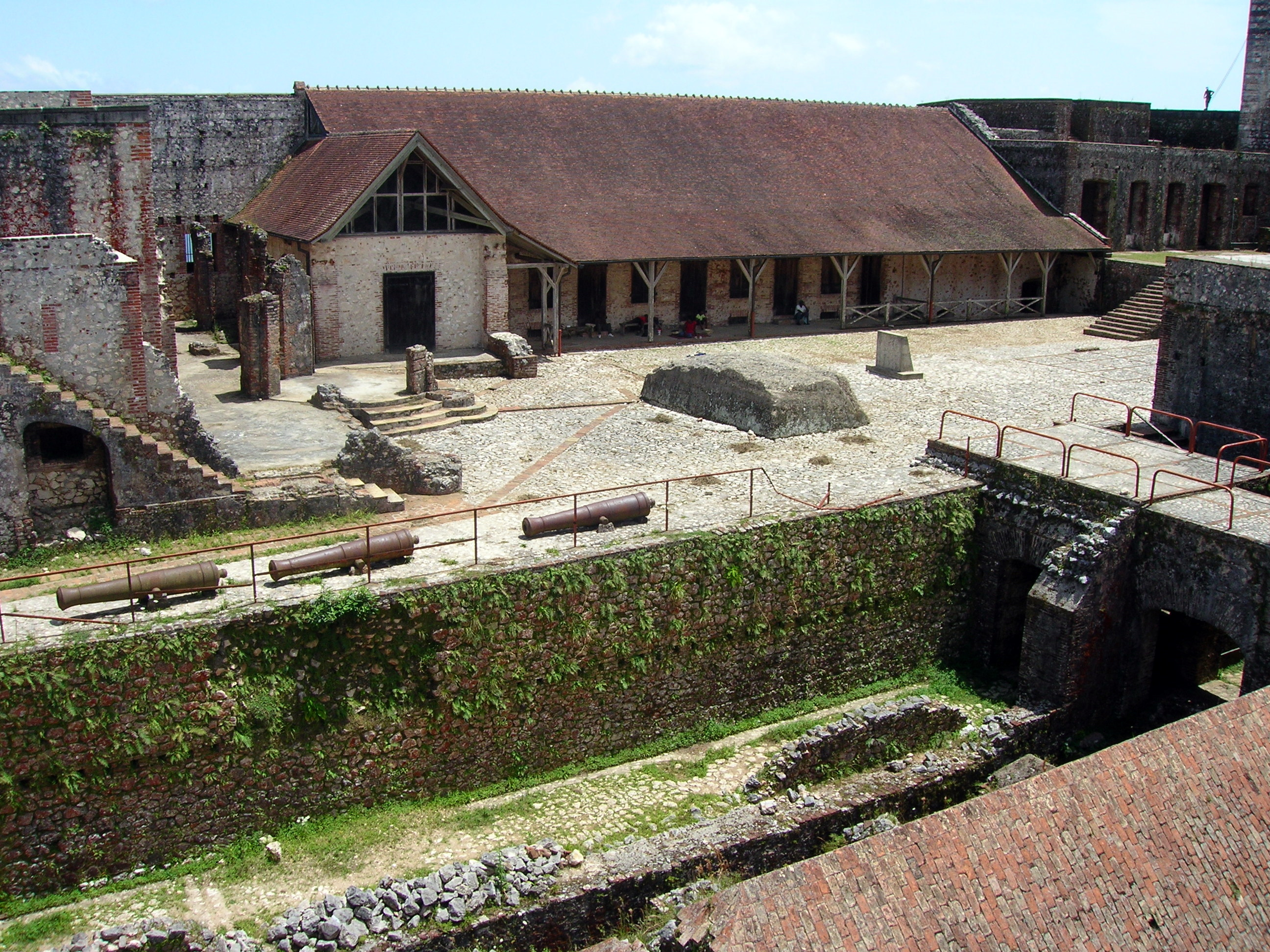 The Citadelle Laferrière, near Milot in Haiti.